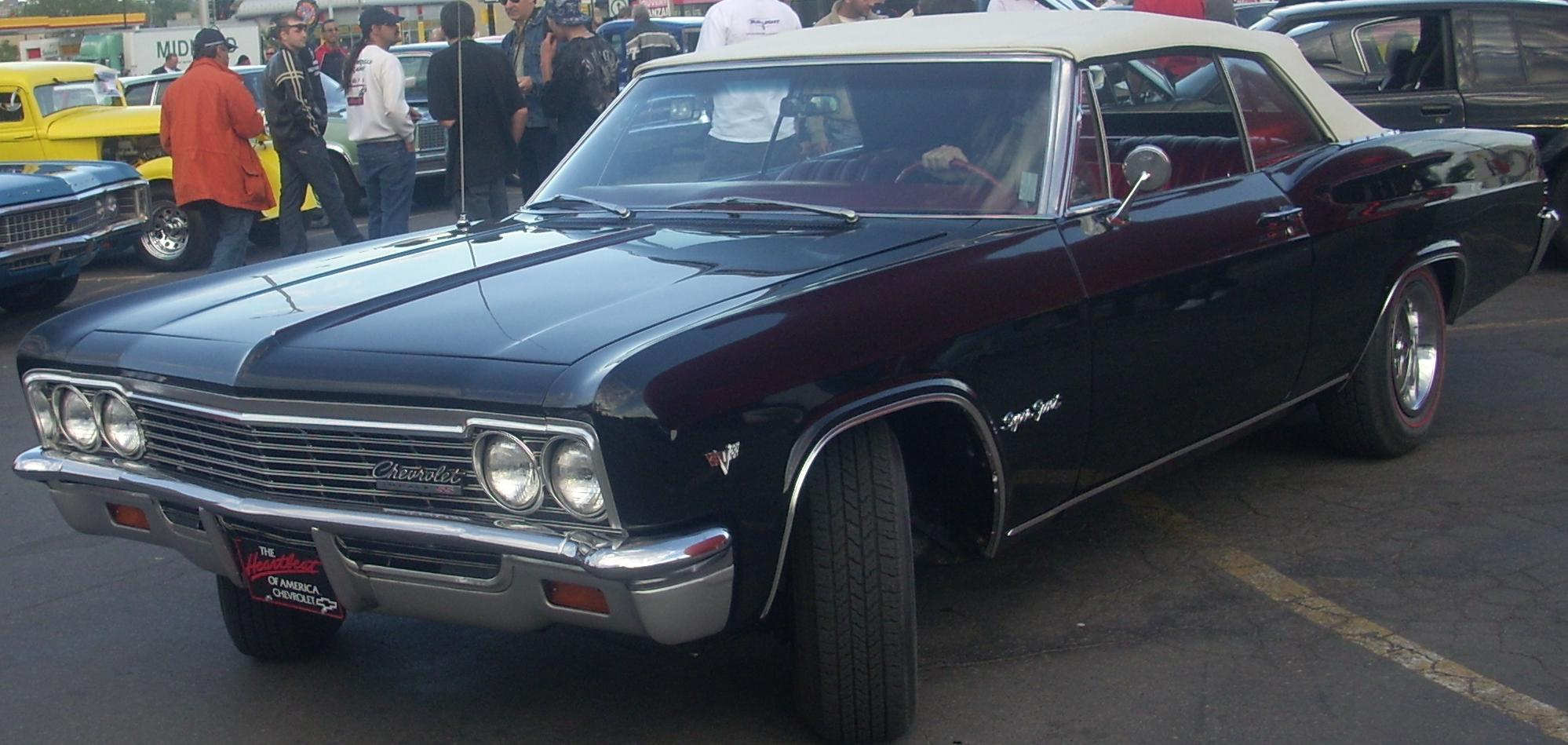 Chevrolet Impala SS photographed in Montreal, Quebec, Canada at Gibeau Orange Julep.